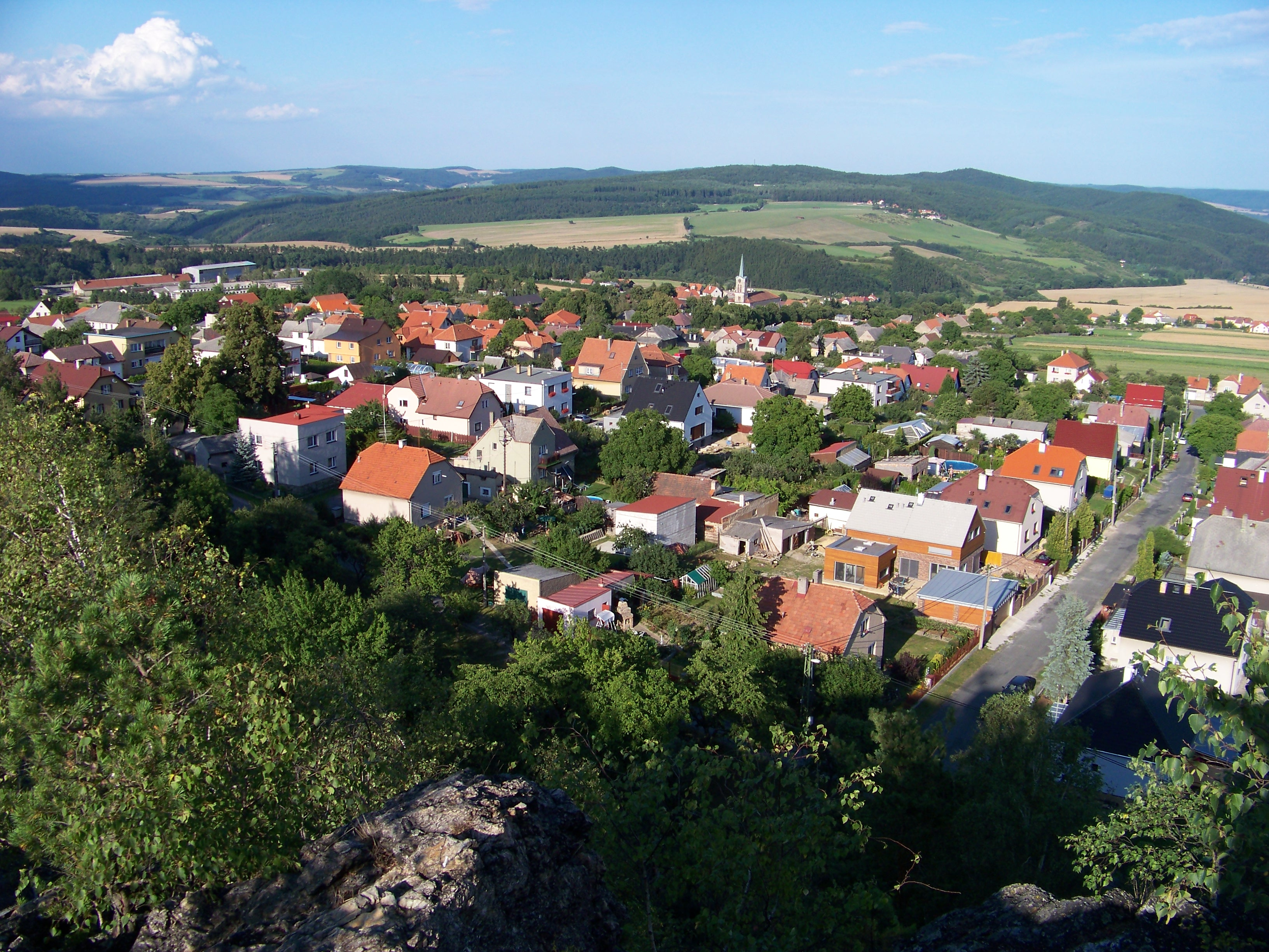 Hudlice, Beroun District, Central Bohemian Region, the Czech Republic. A view from Hudlice Rock.